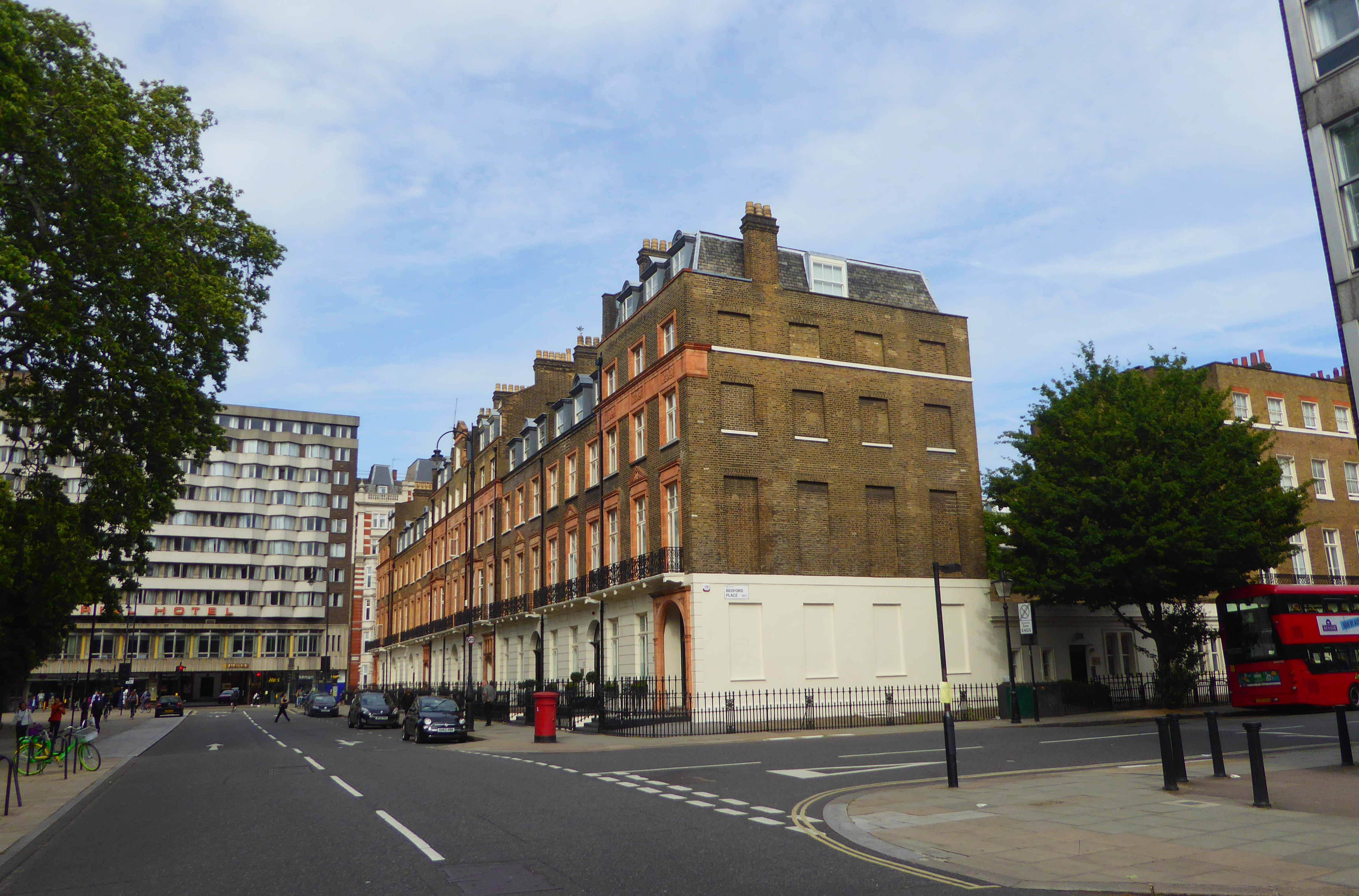 Nos. 52 to 60 Russell Square in Bloomsbury, London Borough of Camden.